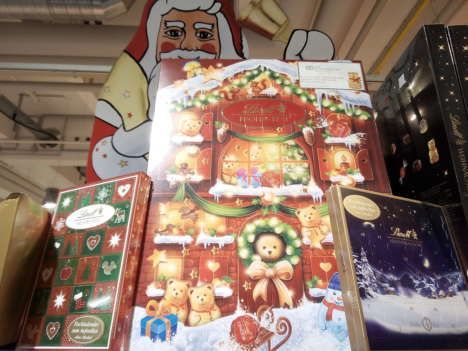 German's Lindt advent calendar's sale